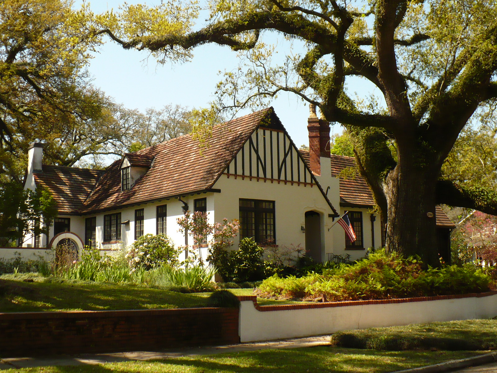 2305 Ashland Place, within the Ashland Place Historic District in Mobile, Alabama.